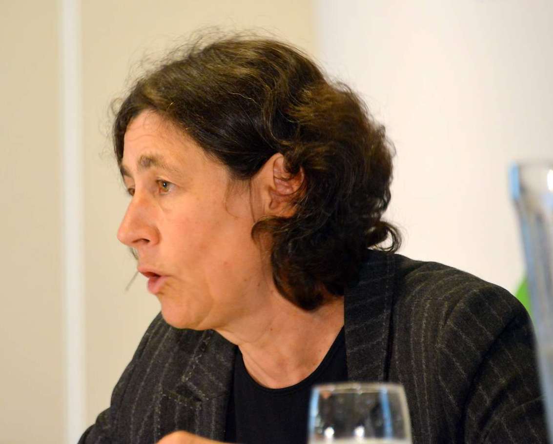 Chantal Hébert, national affairs writer for the Toronto Star.